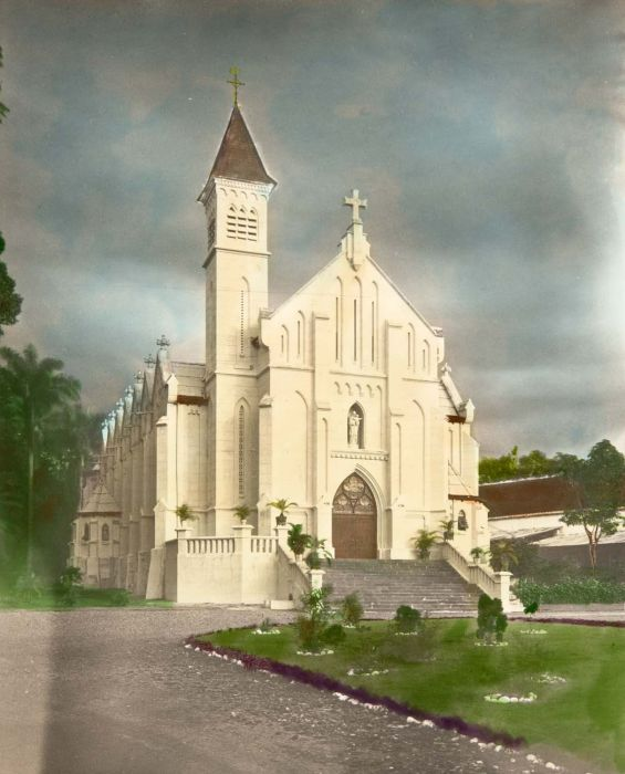 Roman catholic church at Buitenzorg